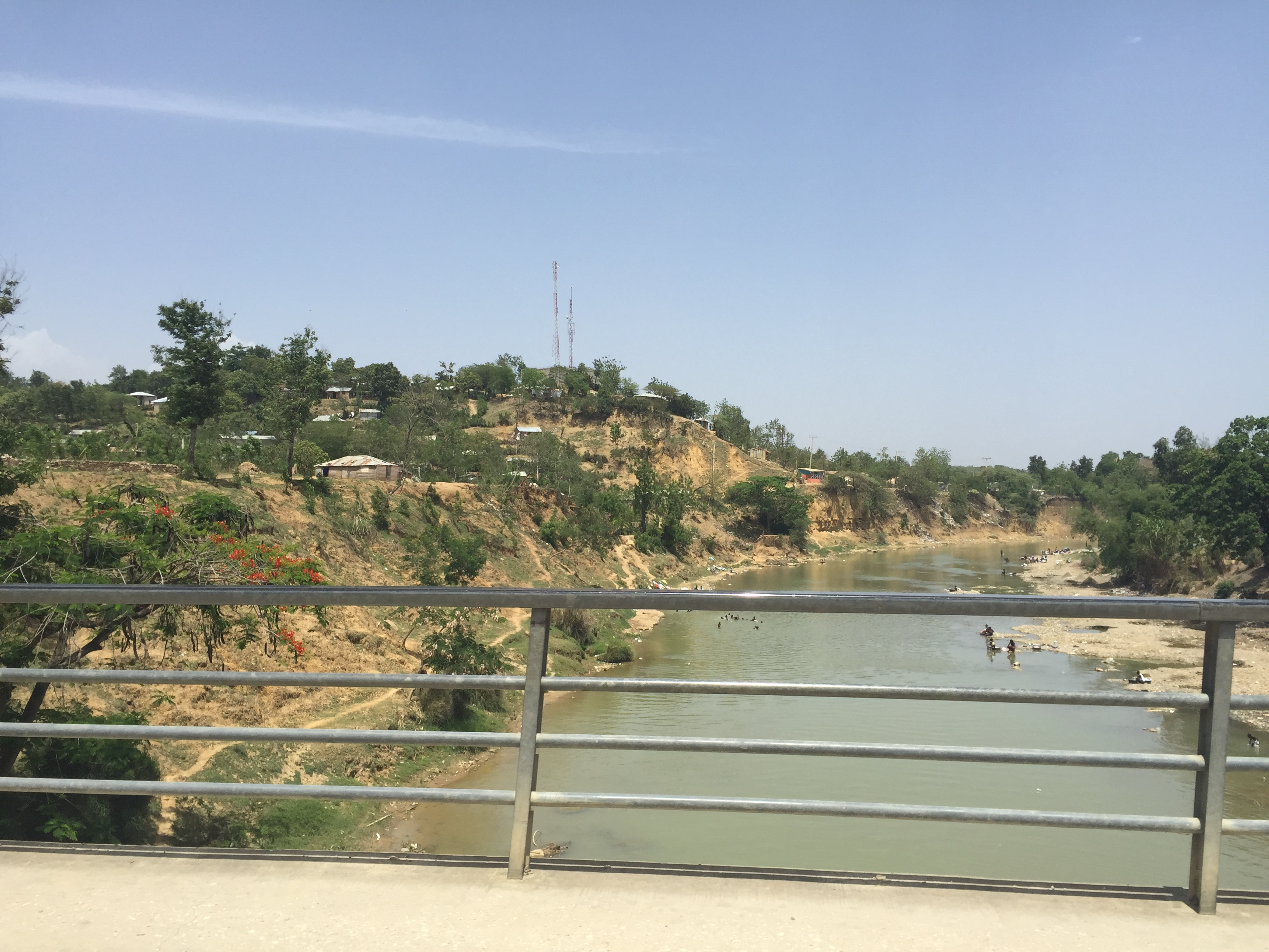 Route Nationale #3, Hinche, Haiti